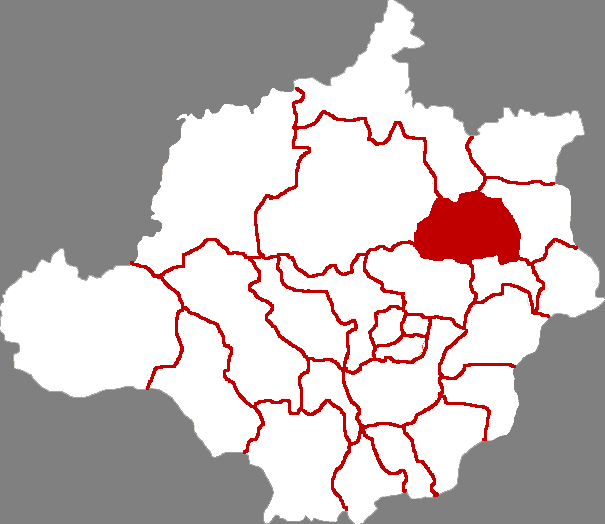 Location of Dingxing county in Baoding City, China